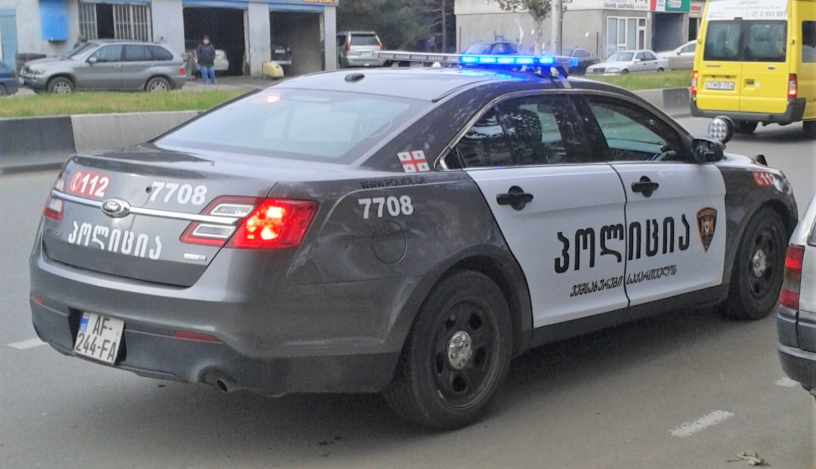 Tbilisi, Georgia — Georgian Police's new patrol car Ford Taurus Police Interceptor (2014)